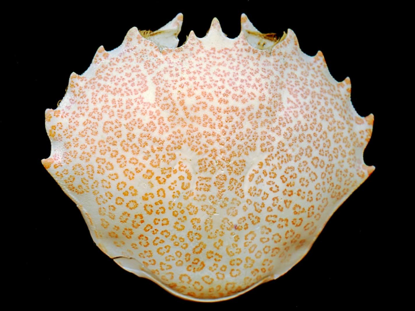 The moulted carapace of a lady crab, Ovalipes ocellatus found in the beachdrift on the beach at Long Beach, Long Island, New York State, USA by the photographer in October 2008